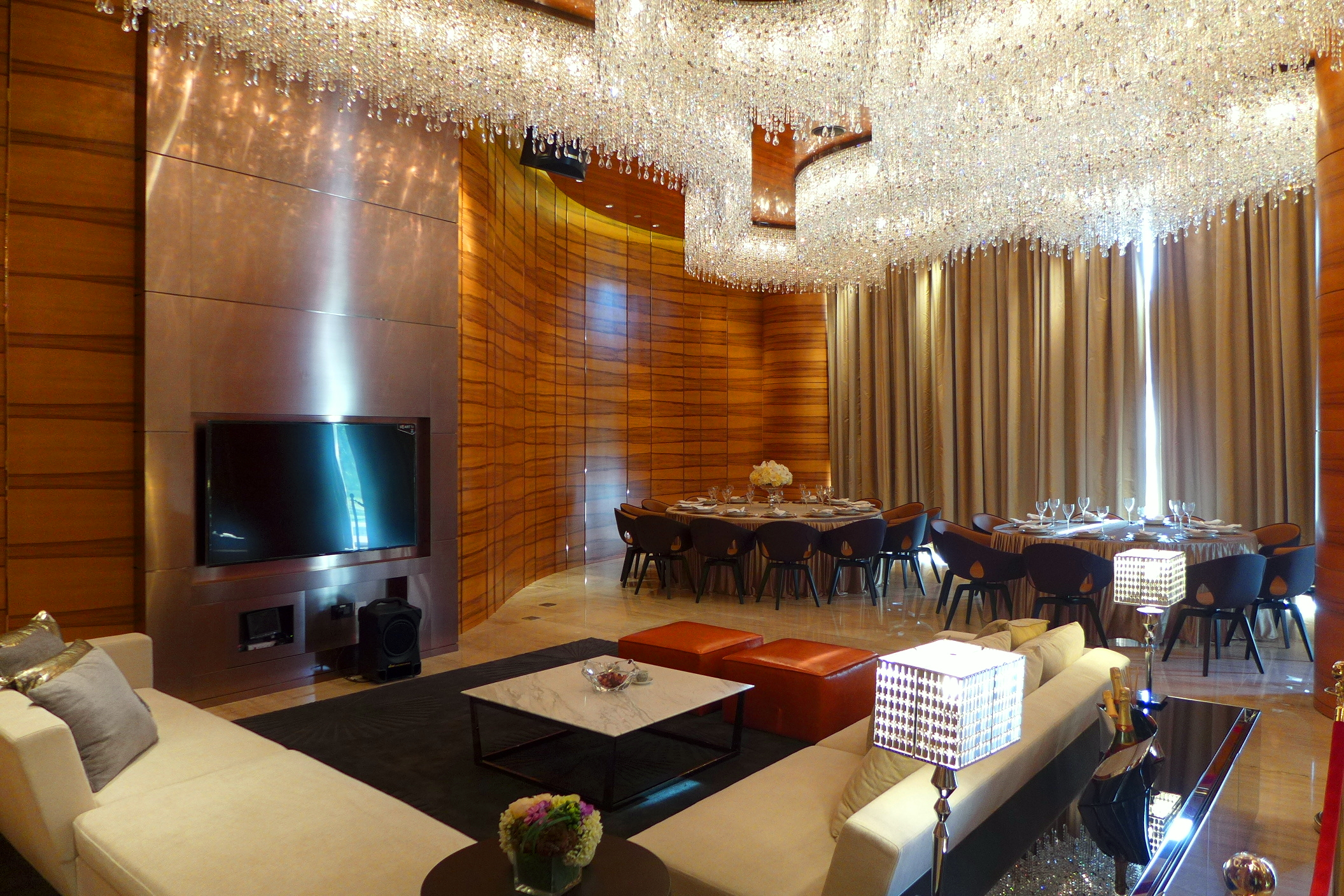 Mont Vert Function Room, Tai Po